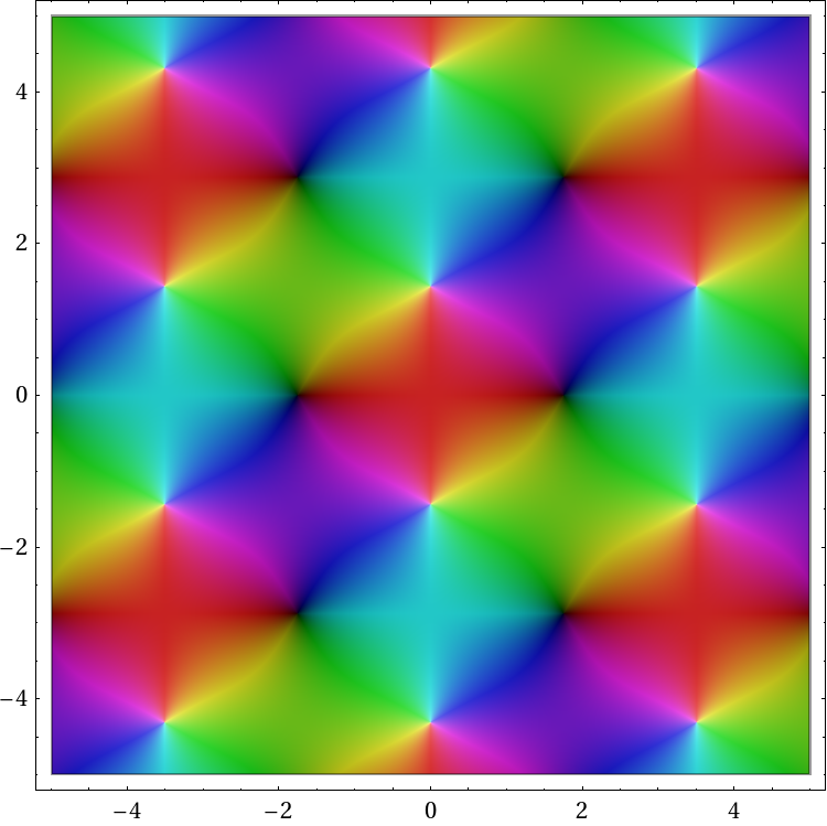 Complex graph of the Jacobi elliptic function dn u, with parameter m=√2.